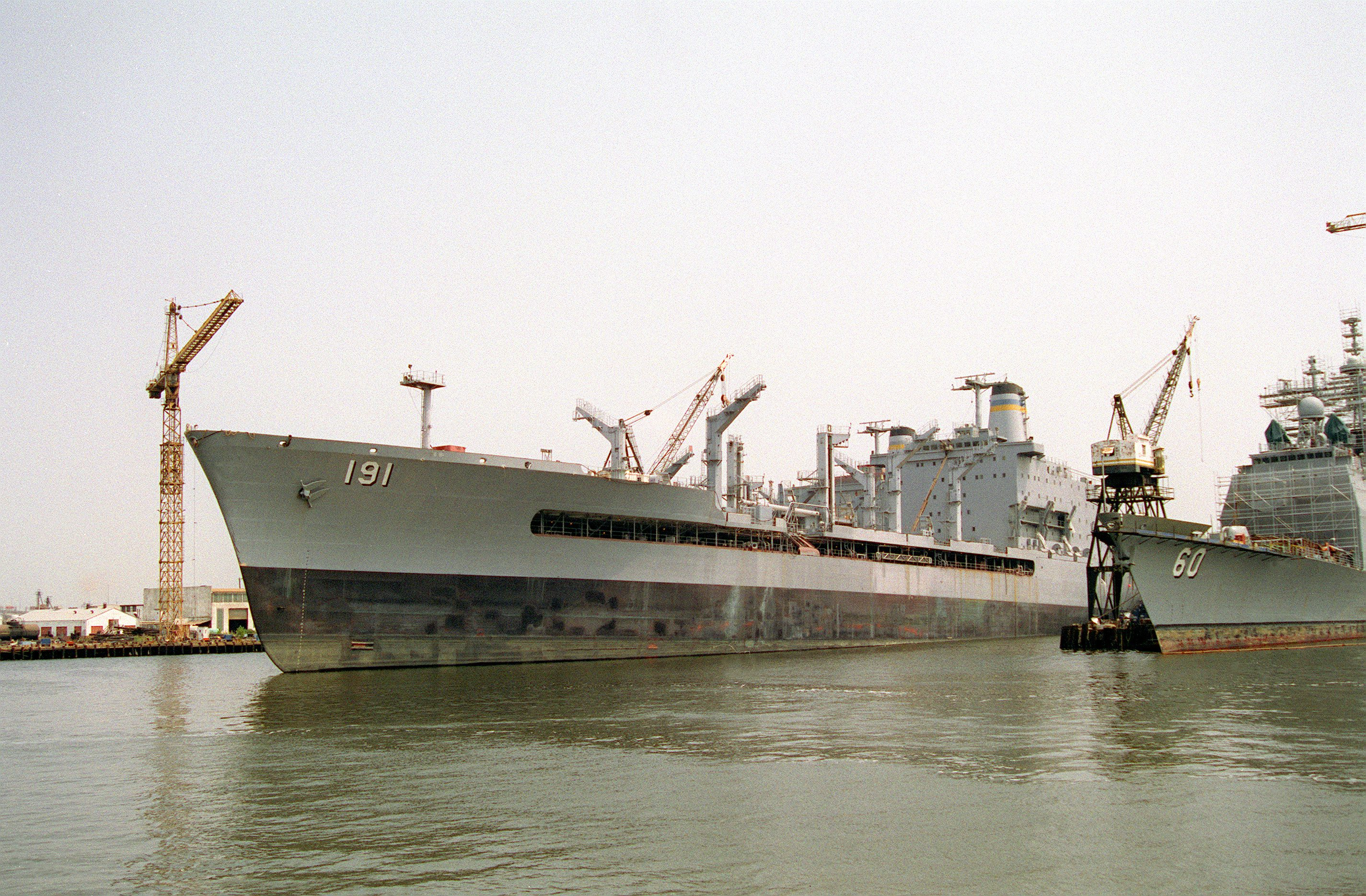 A port bow view of the Military Sealift Command oiler USNS Benjamin Isherwood (T-AO-191) tied up at the Norfolk Ship Building and Dry Dock Corporation. The ship is being prepared for long term storage by NORSHIPCO now that the possible plan of converting the vessel to an ammunition ship has been discarded. The guided missile cruiser USS Normandy (CG-60) on the right is under routine overhaul at the NORSHIPCO facility near Norfolk. Location: Elizabeth River, Norfolk, Virginia, United States of America